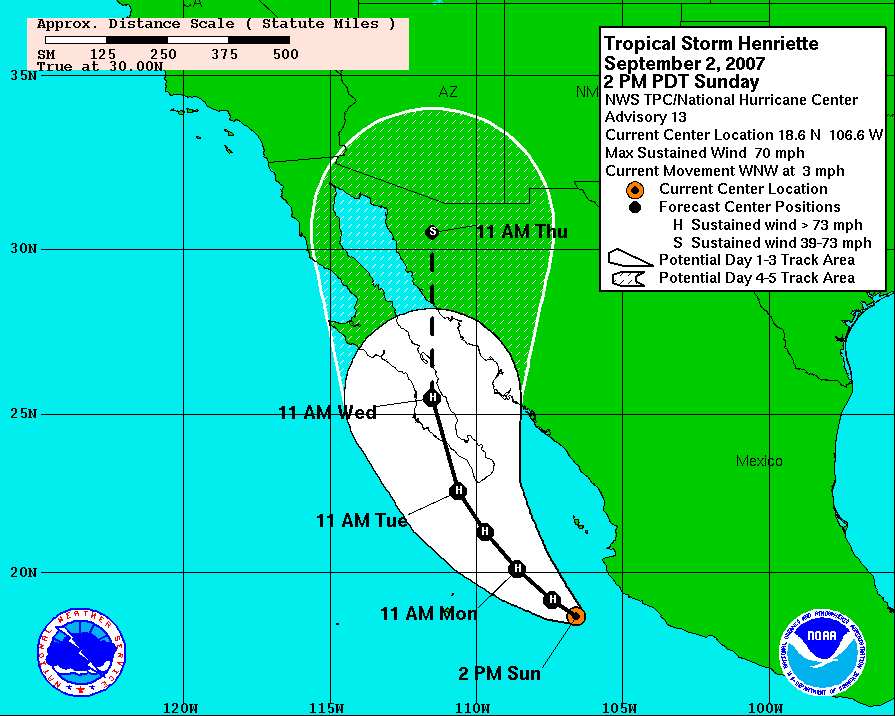 Tropycal Storm Henriette. September 02, 2007.